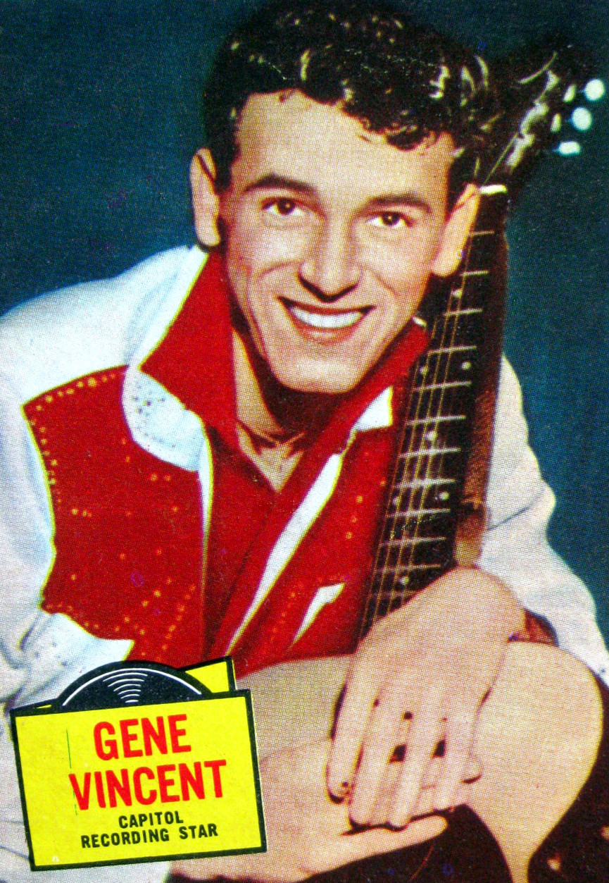 Trading card photo of Gene Vincent. In 1957, Topps gum cards issued a series of movie stars, television stars and recording stars. He was part of their recording stars cards.